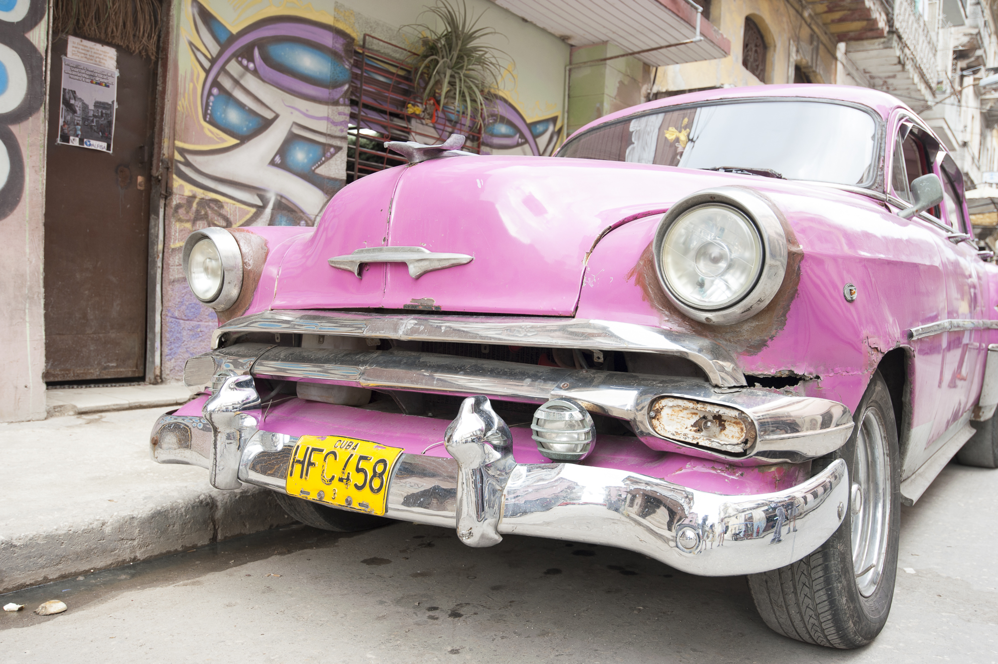 Pink Chevvy, Jan 2014, image by Marjorie Kaufman